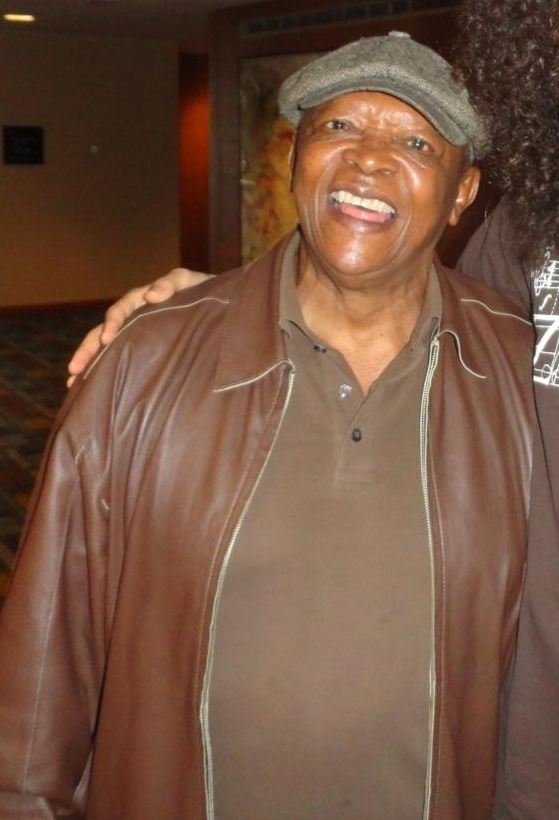 South African trumpet player Hugh Masekela performed his magical music at The Regatta Bar at The Charles Hotel in Cambridge, Mass. on June 26, 2013.